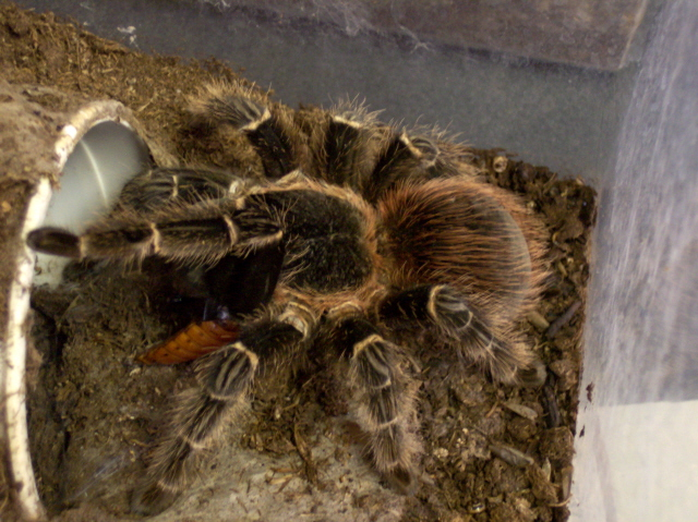 Female Lasiodora klugi preyed upon a cockroach.